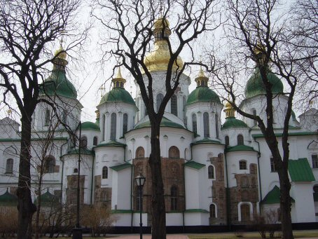 Cathedral of St. Sophia in Kiev, Ukraine.